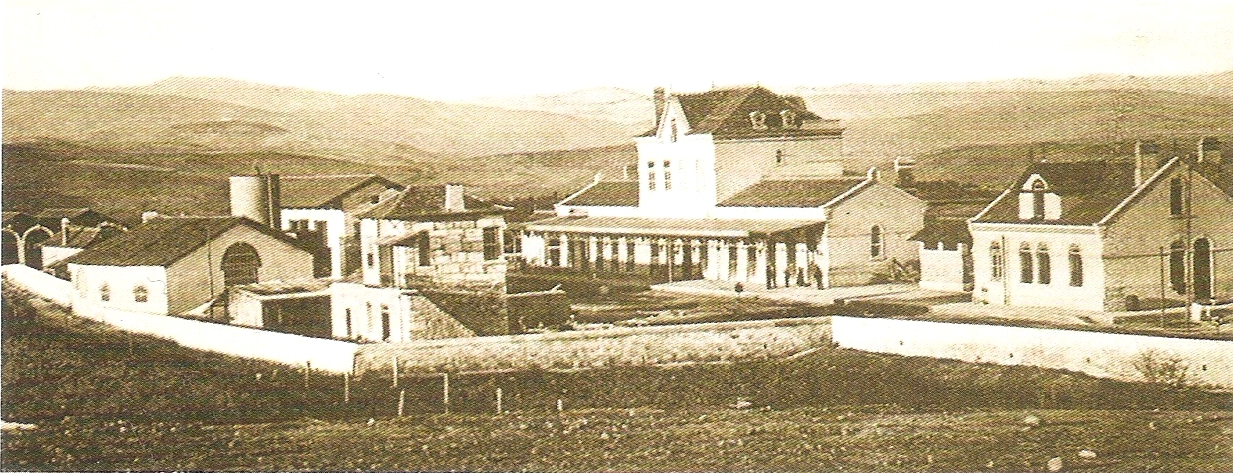 Braganza Railway Station, in Portugal. This photograph was taken in the first years of the Portuguese Republic, founded in 1910.